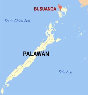 Map of Palawan showing the location of Busuanga